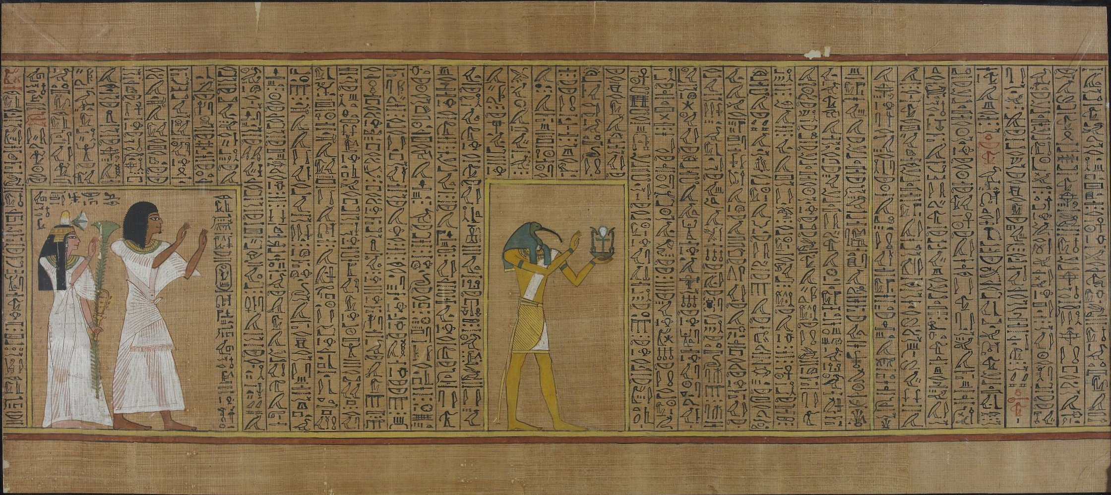 The Book of the Dead of Hunefer, sheet 2.